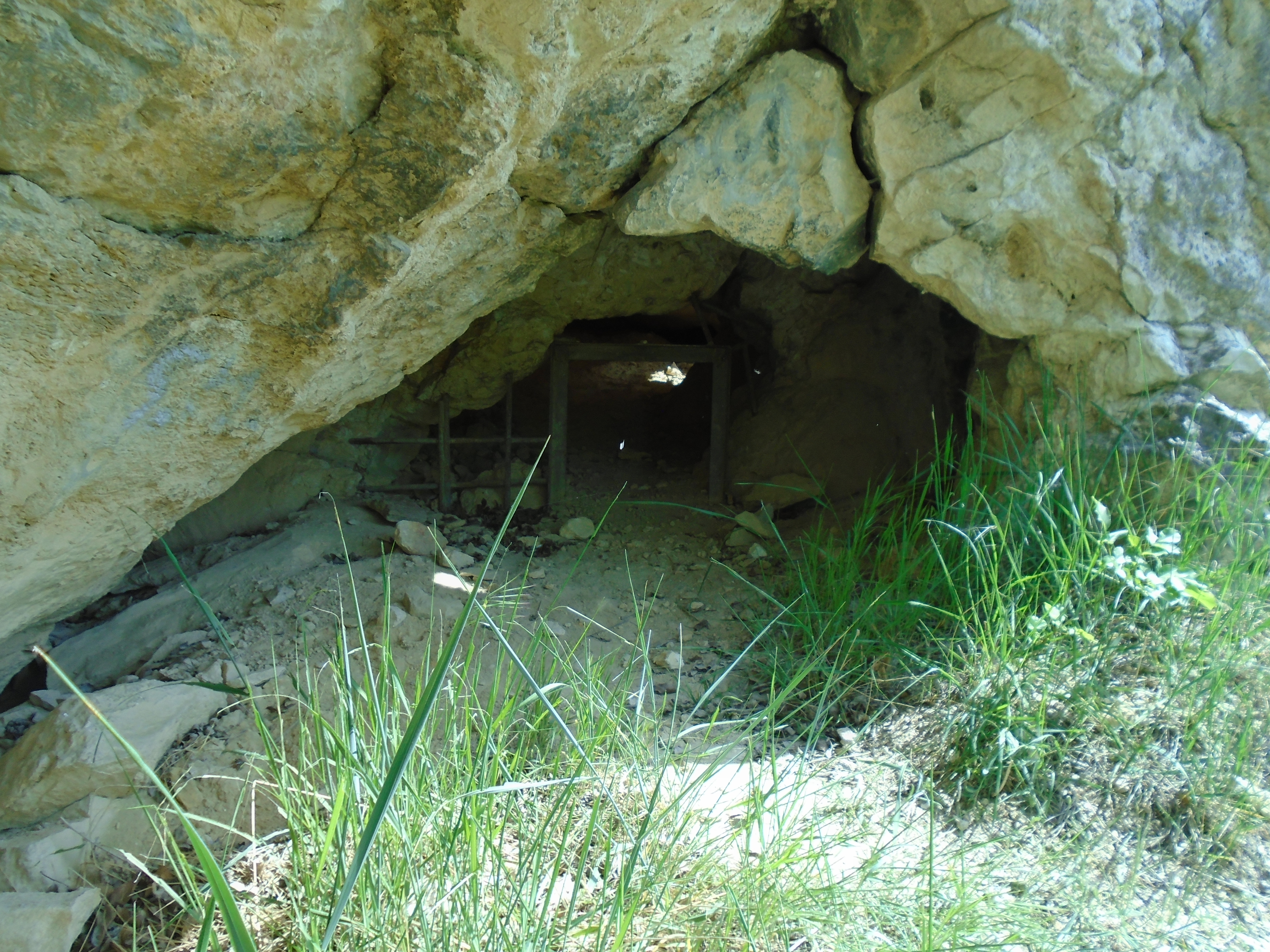 Entrance of Keleti quarry No 7 Cave.